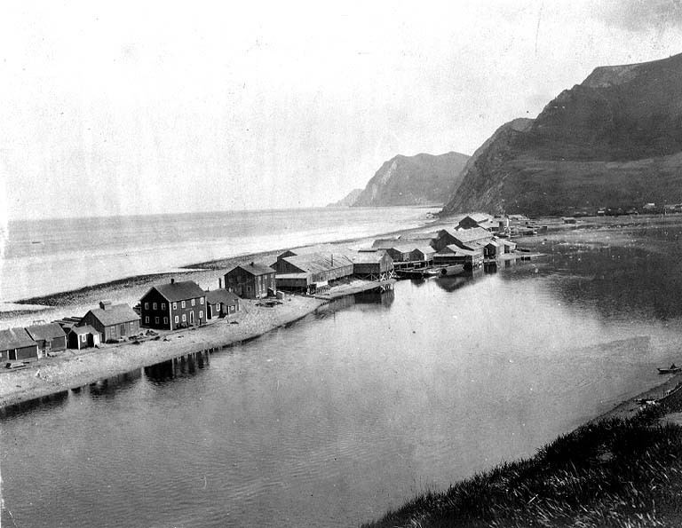 From John Cobb field notebook: Park of Karluk Spit, Karluk, Alaska. June 1906 Subjects (LCTGM): Dwellings--Alaska--Karluk Subjects (LCSH): Karluk (Alaska); Spits (Geomorphology)--Alaska--Karluk